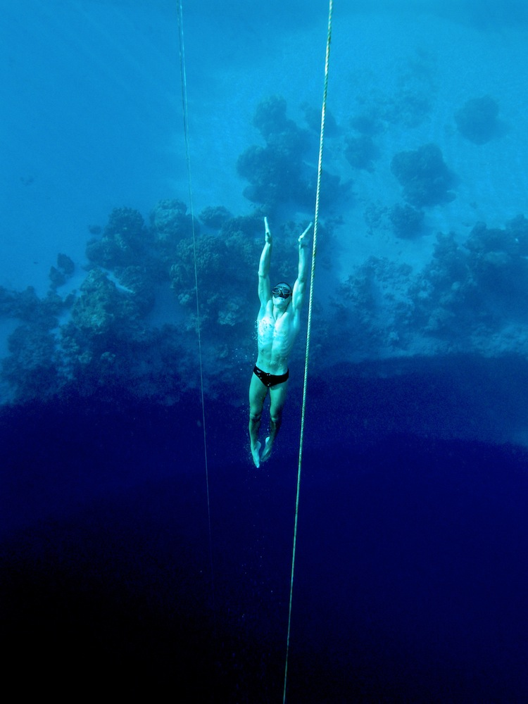 Photo of William Trubridge in Dean's Blue Hole taken by Igor Liberti